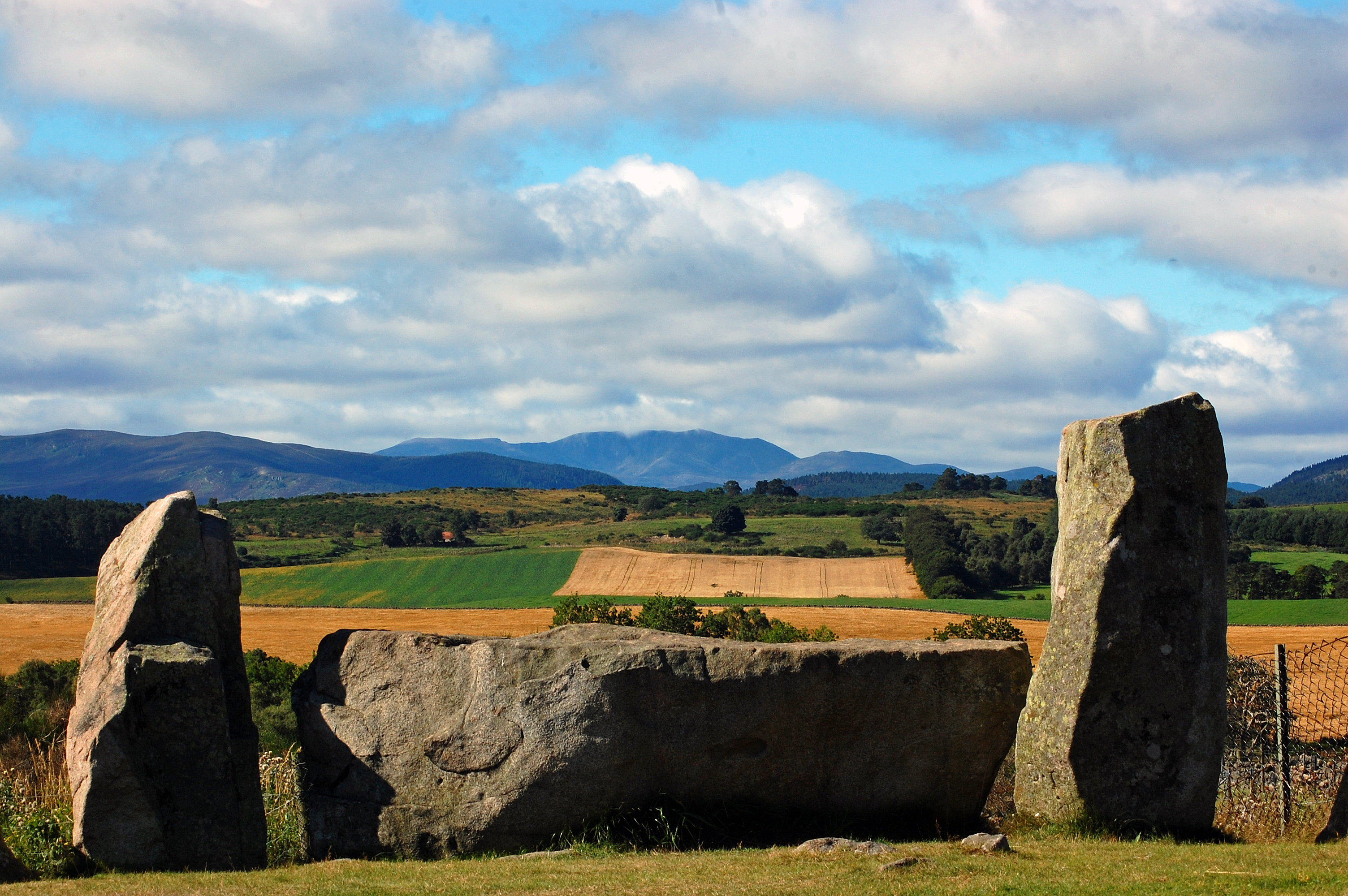 The approx. 4,000 year-old ring of stones near the village of Tarland in Aberdeenshire is one of almost 100 recumbent stone circles found in the north-east of Scotland. The two upright stones flanking a large recumbent stone shown here frame the hills of Lochnagar( in the distance) and may have been used by early farmers for lunar observation.